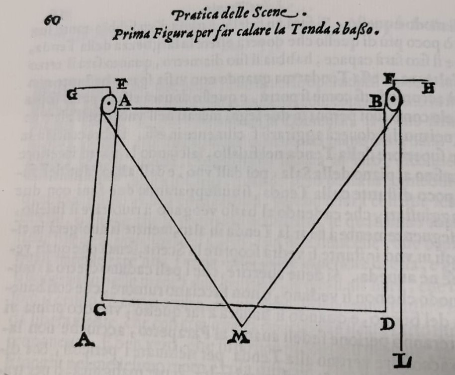 Hier sieht man eine Skizze von einem Aufrollbaren Vorhang von Nicola Sabbatini.